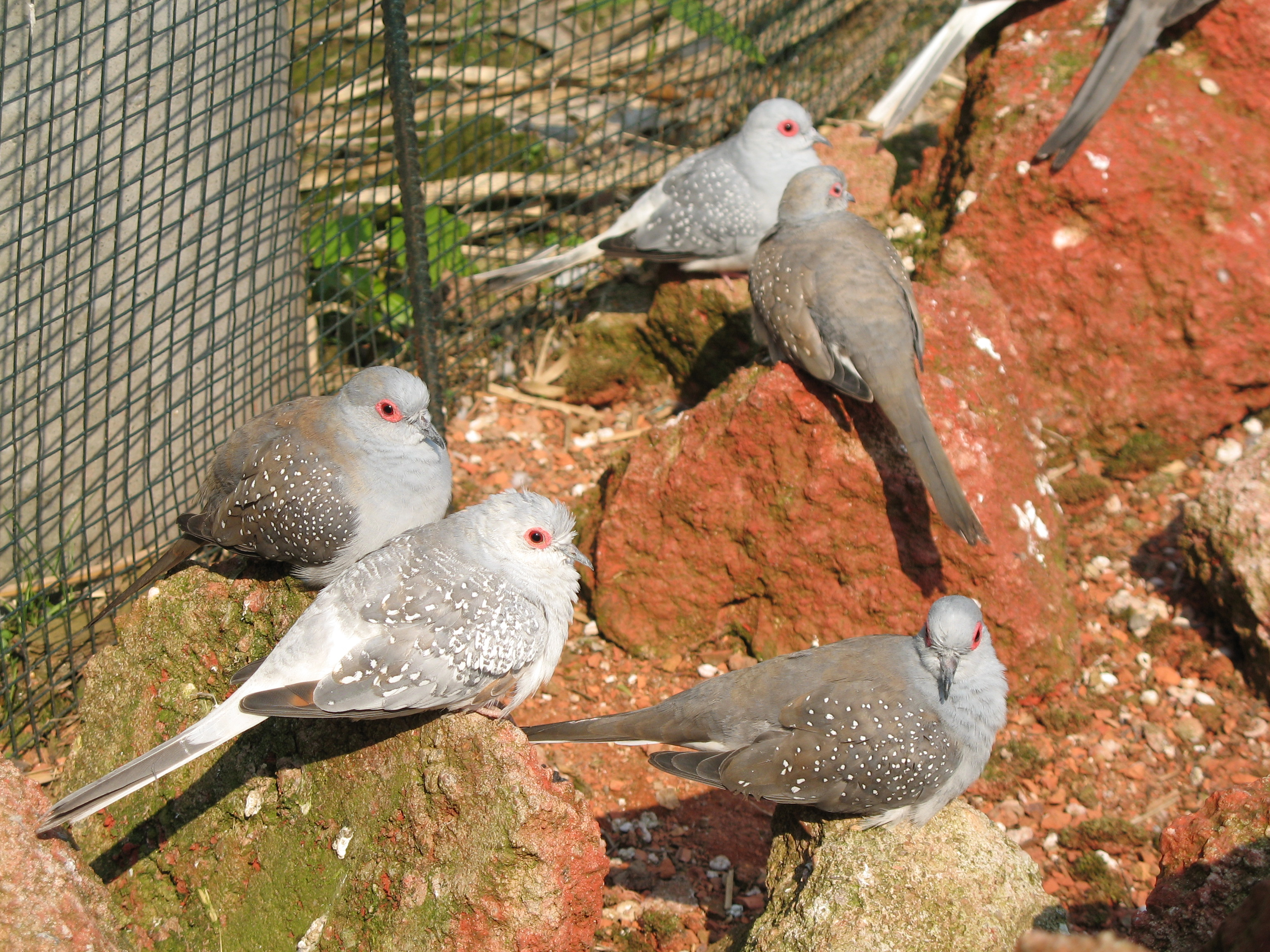 Diamond Dove(Geopelia cuneata) at Marlo Birdpark (Germany)